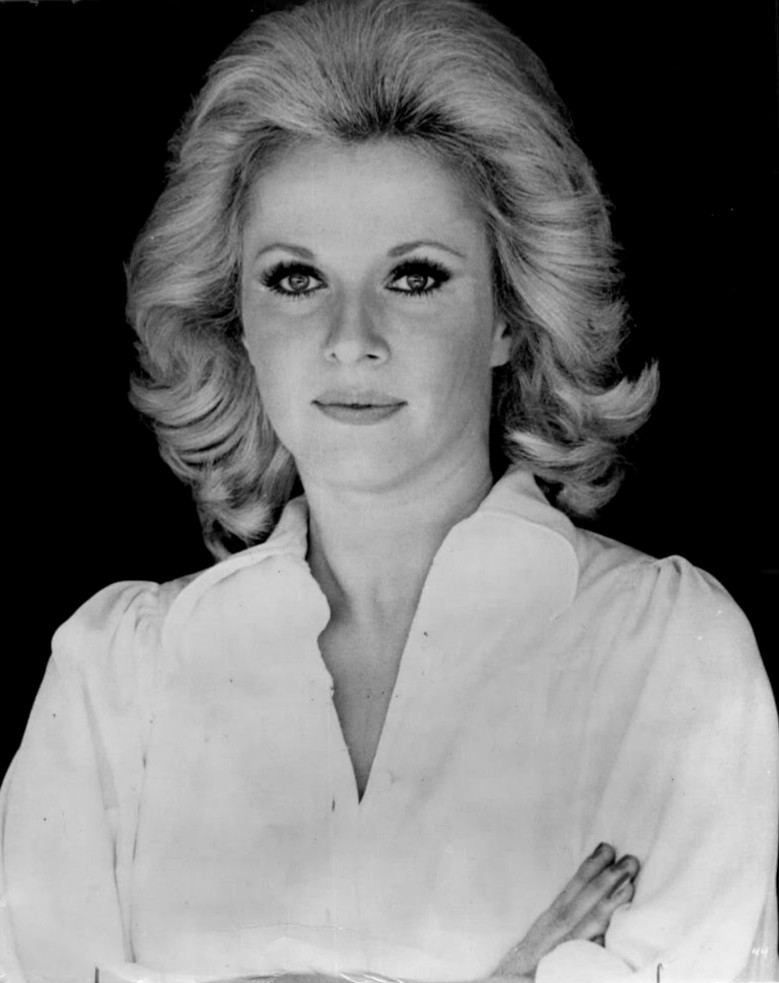 Photo of vocalist and actress Mary Costa.